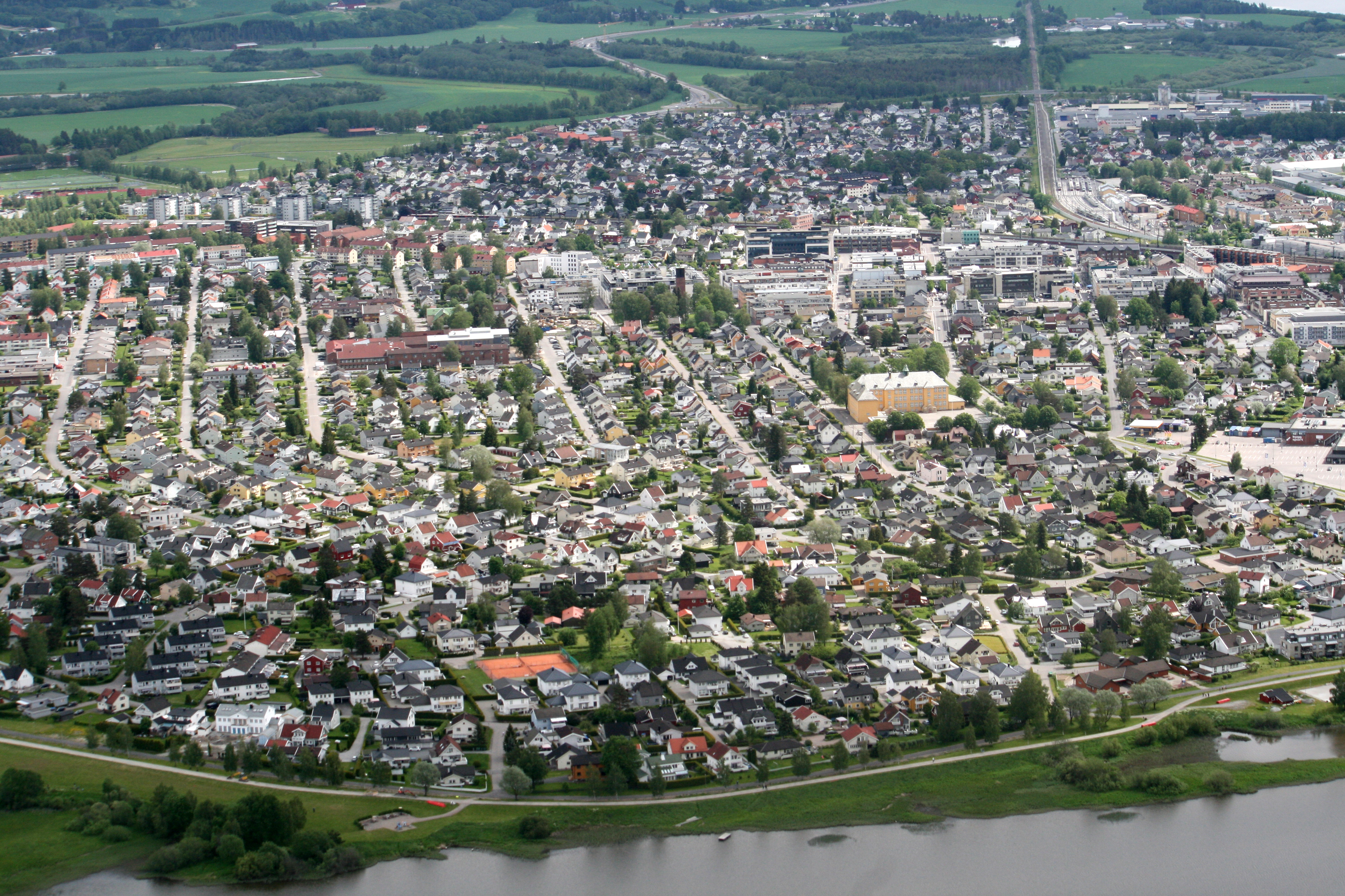 Aerial photograph from June 14th, 2015. Part of city of Lillestrøm (Norway) with river Nitelva in the foreground.)